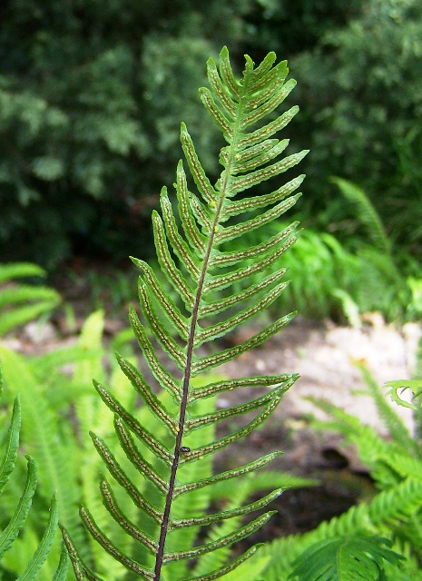 Blechnum spicant (L.) Sm. Sori on the underside of frond. Common names: Deer fern, ladder fern, hard fern ITIS USDA Image in Flora (1885)